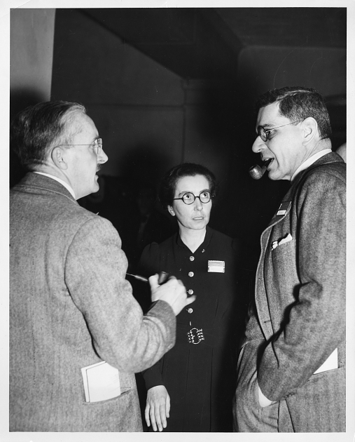 90-105, 8, Portraits Gar; "Unidentified man; British archeologist Dorothy Annie Elizabeth (""Daisy"") Garrod (1892-1968); and unidentified man. Garrod was the first woman to do research on Paleolithic humans, first woman to hold a professorship at Cambridge University, and co-leader of an important archeological exploration of Mount Carmel during the mid-1930s. This photograph was taken by Fremont Davis at the International Symposium on Early Man, Philadelphia, March 1937."